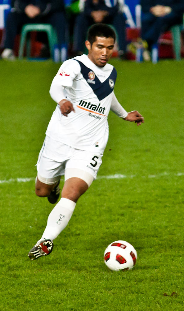 Surat Sukha playing for Melbourne Victory FC in Round 1 of the 2010-11 A-League against Sydney FC.